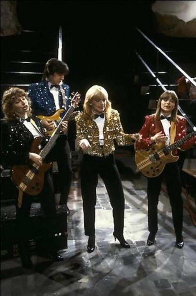 Colored picture of the final line up of Pussycat members in the early 80s